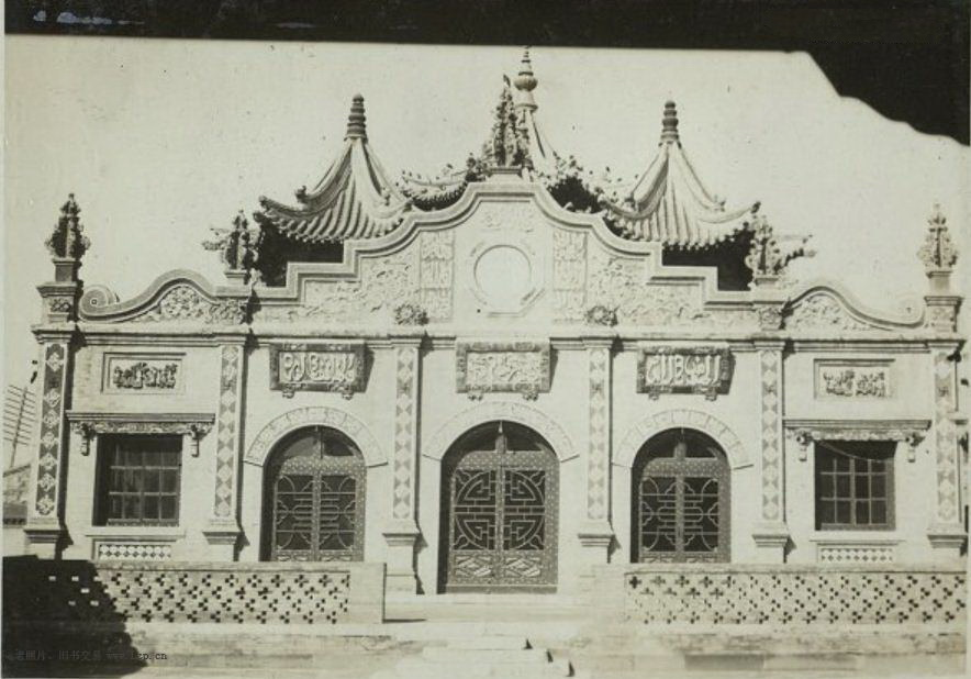 Mosque, Hohhot, 1942